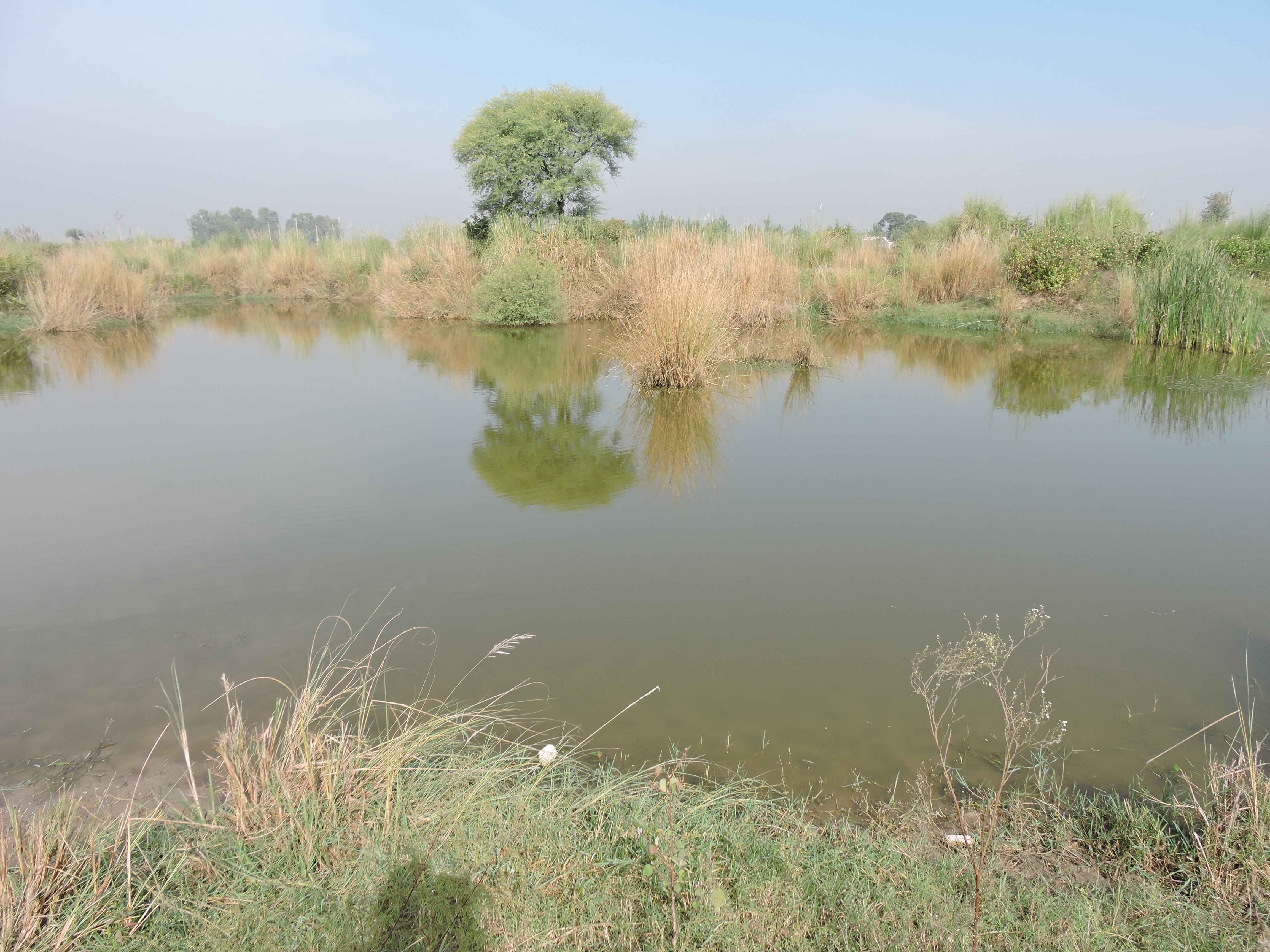 Pond of ,vllage Chappar Chiri, Mohali, Punjab, India